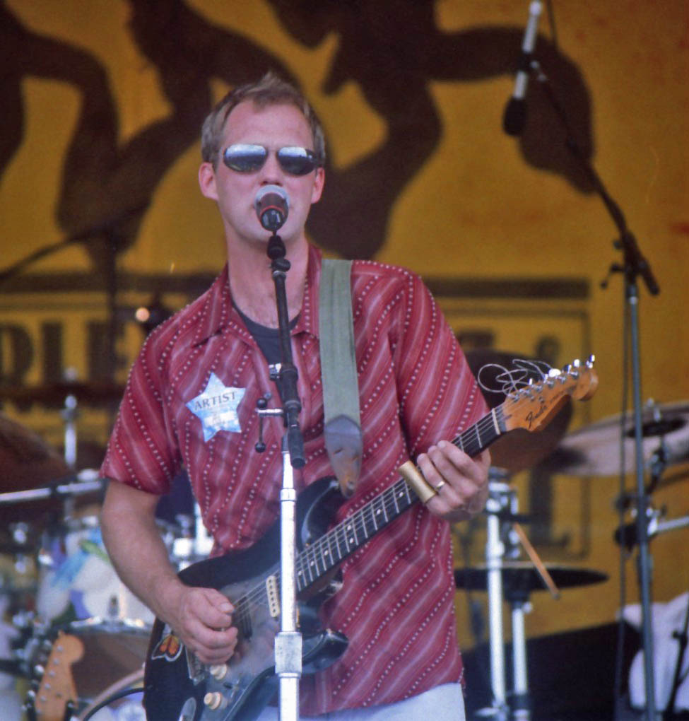 Anders Osborne at New Orleans Jazz & Heritage Festival